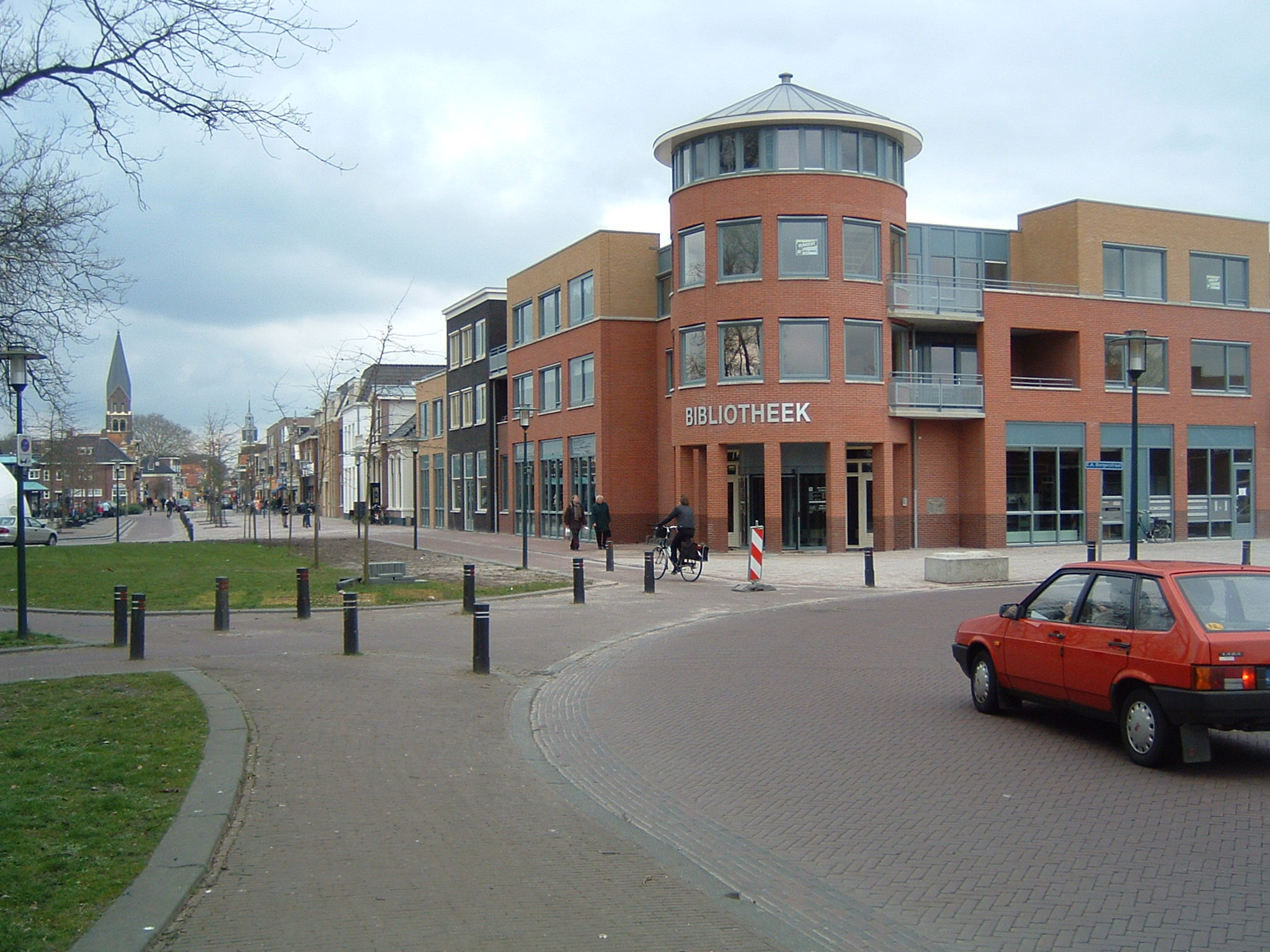 View from the east on the centre of the Dutch town of Joure (Friesland). Most prominent in this picture is Joure's newly built (2004) library (Bibliotheek) on the right.